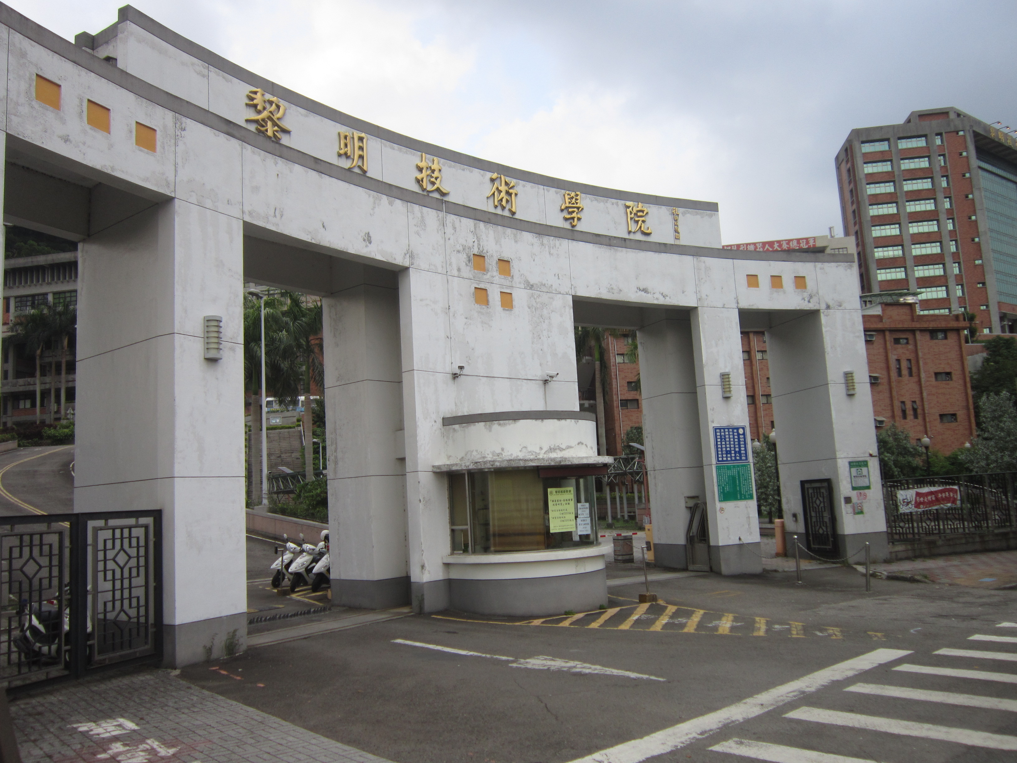 Lee-Ming_Institute_of_Technology_gate20160820